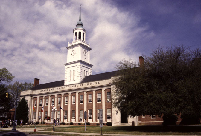 Photo of the Marlboro County Courthouse, Bennettsville, South Carolina, US